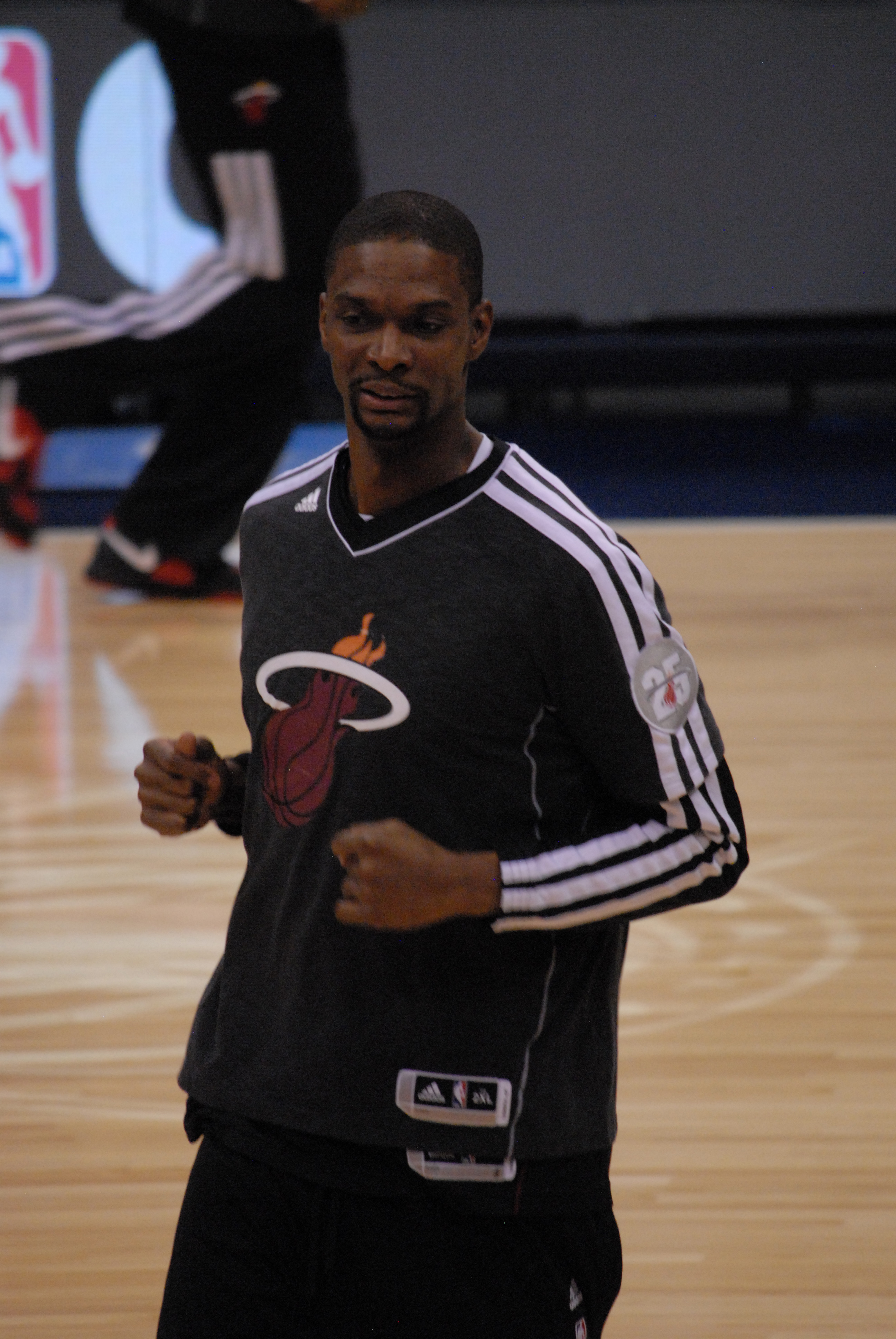 12/20/2012, Dallas Mavericks vs Miami Heat